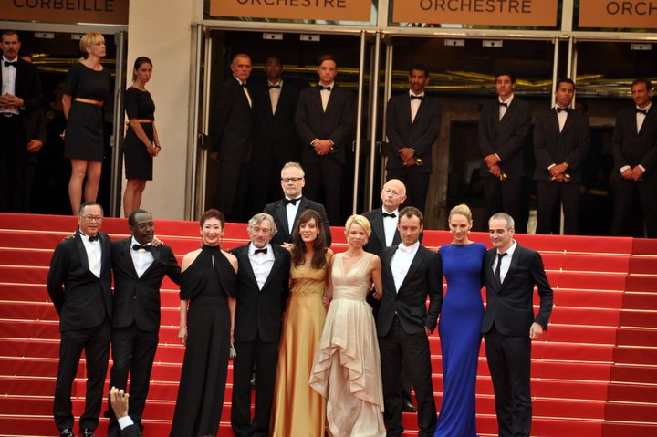 The jury for the 2011 Cannes Film Festival. From left to right: Johnnie To, Mahamat-Saleh Haroun, Nansun Shi, Martina Gusman, jury president Robert De Niro, Linn Ullmann, Jude Law, Uma Thurman and Olivier Assayas